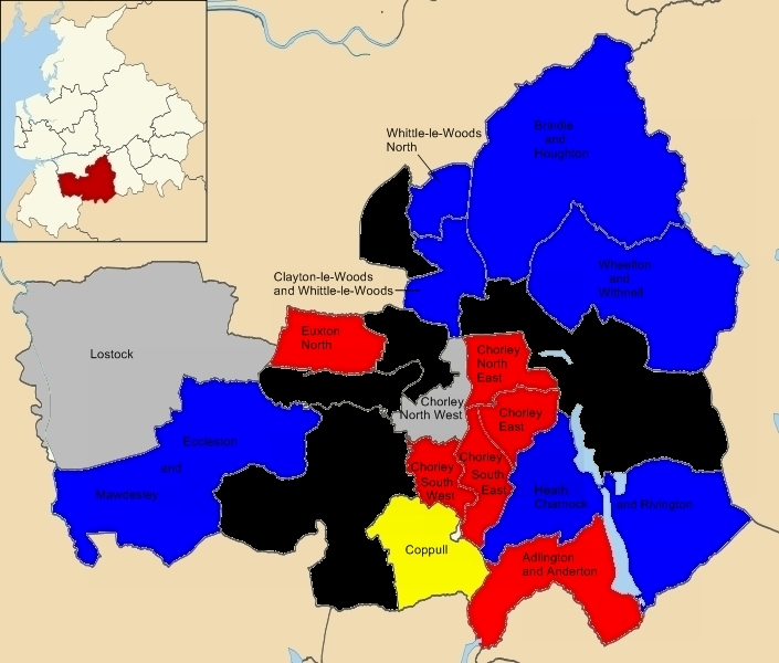 Map of the results of the 2004 Chorley Borough Council elections.